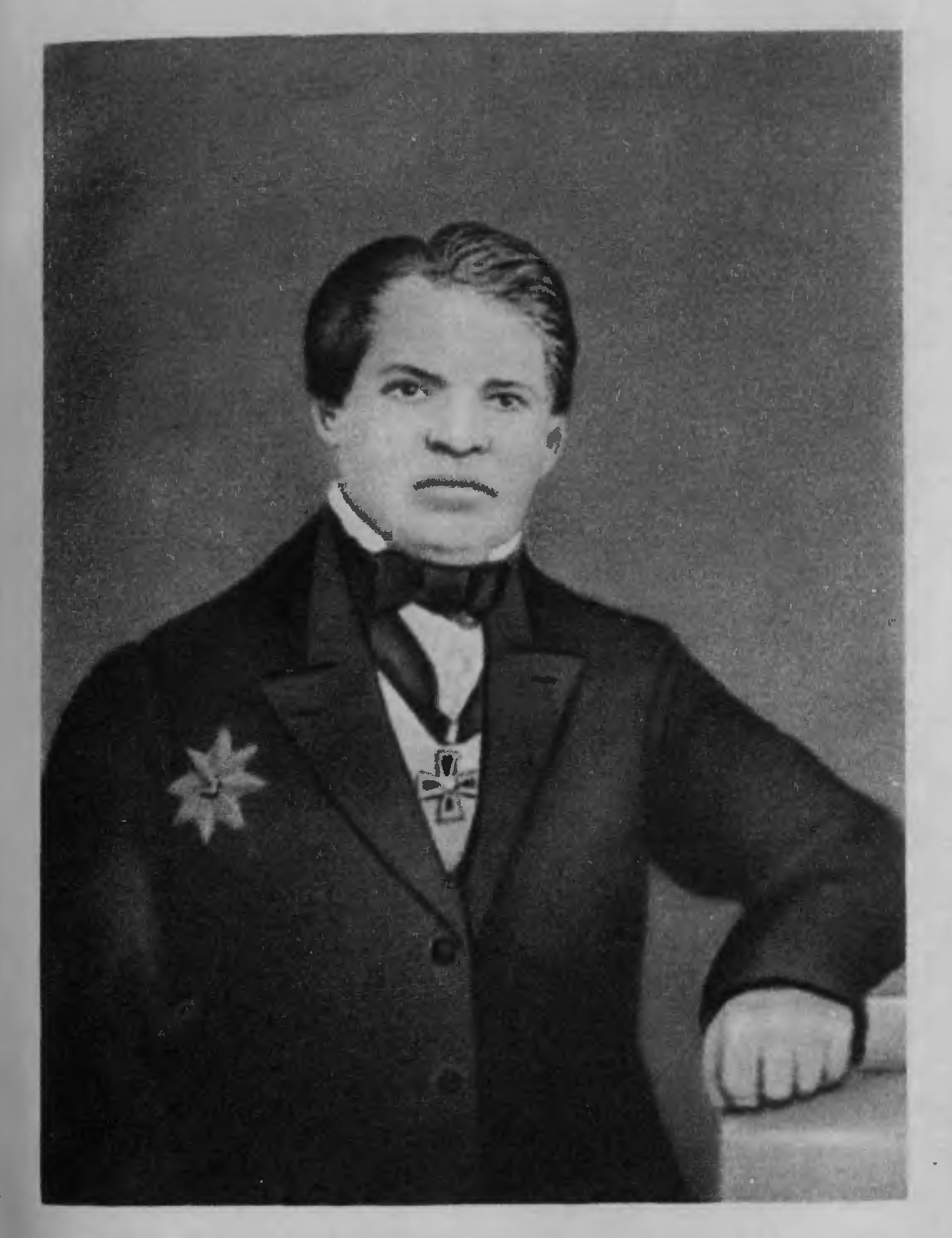 Nikolai Lobachevsky. Daguerreotype 1855